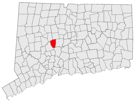 Location of Wolcott, Connecticut